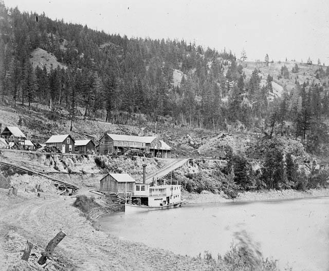 Soda Creek (gold rush town) and steamboats — on upper Fraser River in British Columbia (1863). Credits ( Terms of use Credit: Library and Archives Canada Copyright: Expired